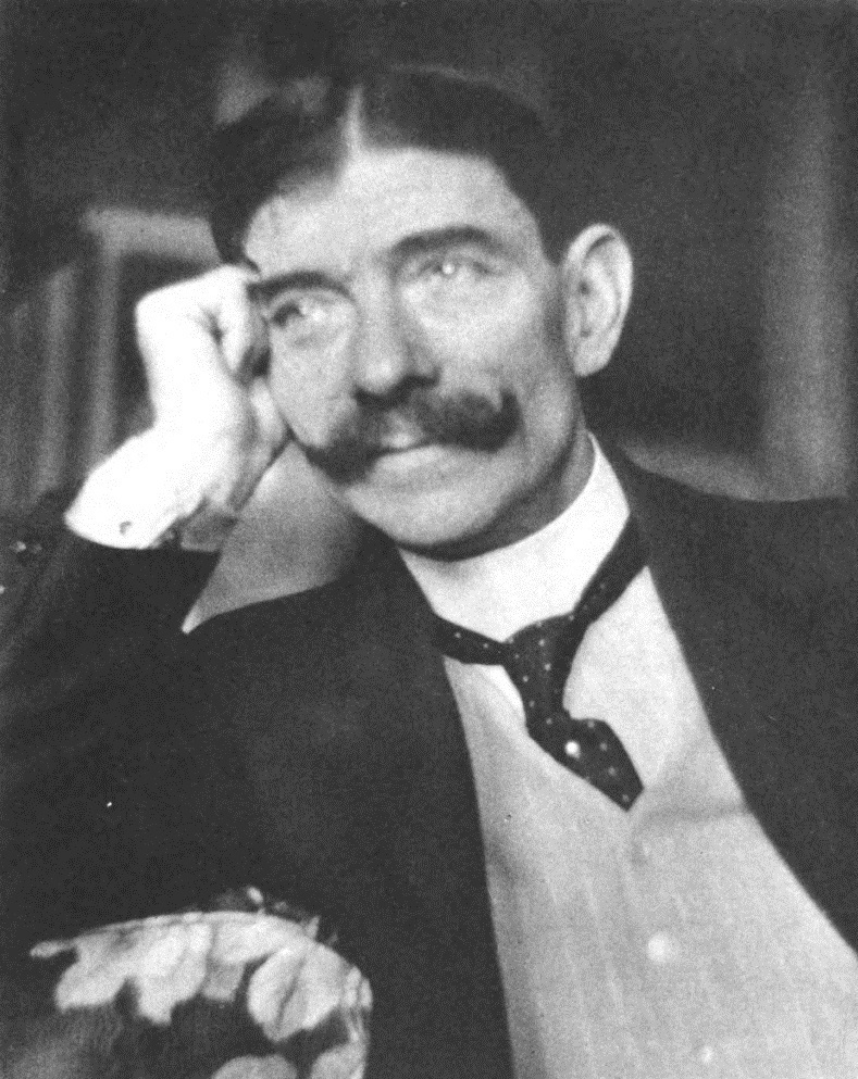 Irish author, journalist and editor Frank Harris , cropped from photo by Alvin Langdon Coburn